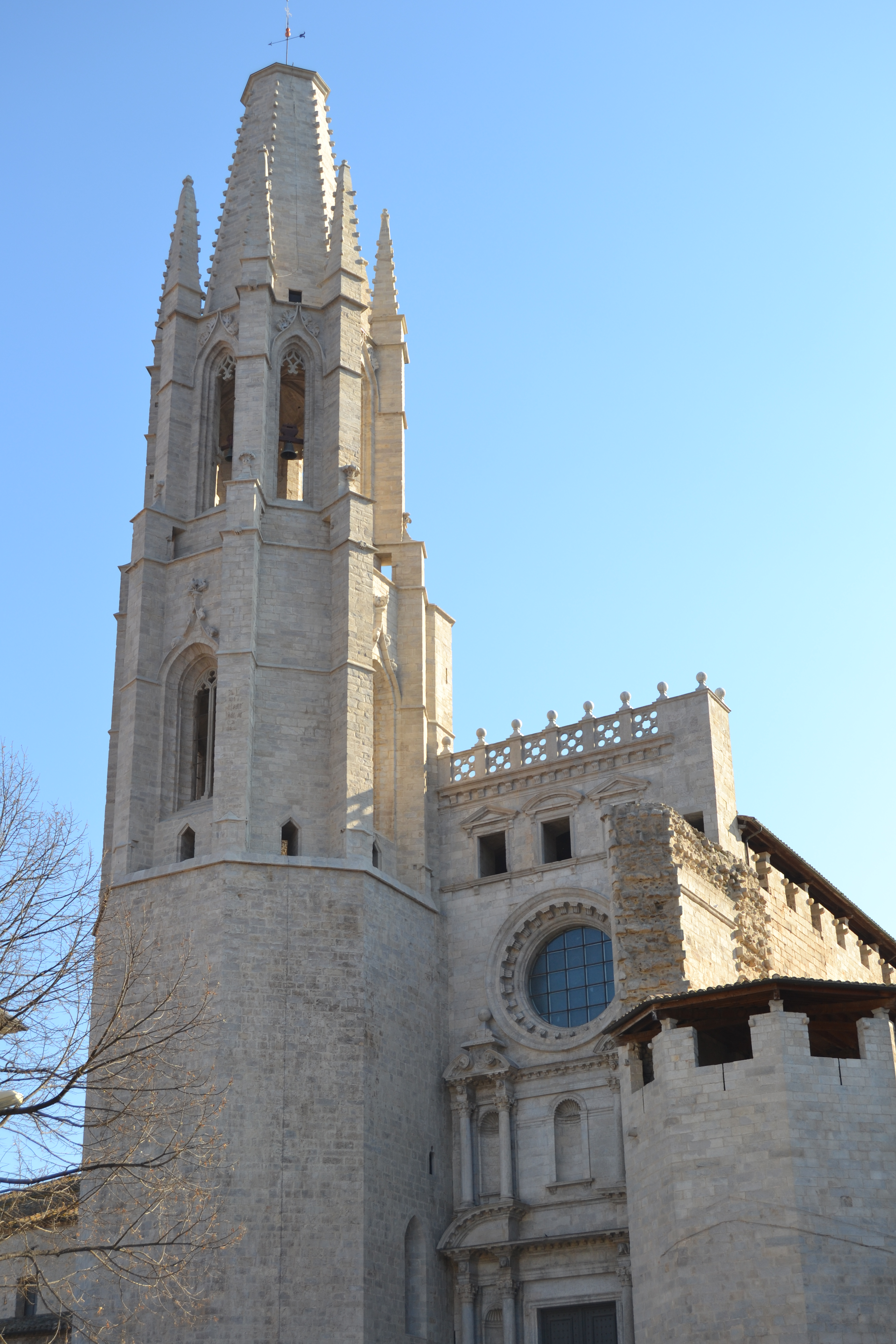 Sant Feliu, a church in Girona, Catalonia